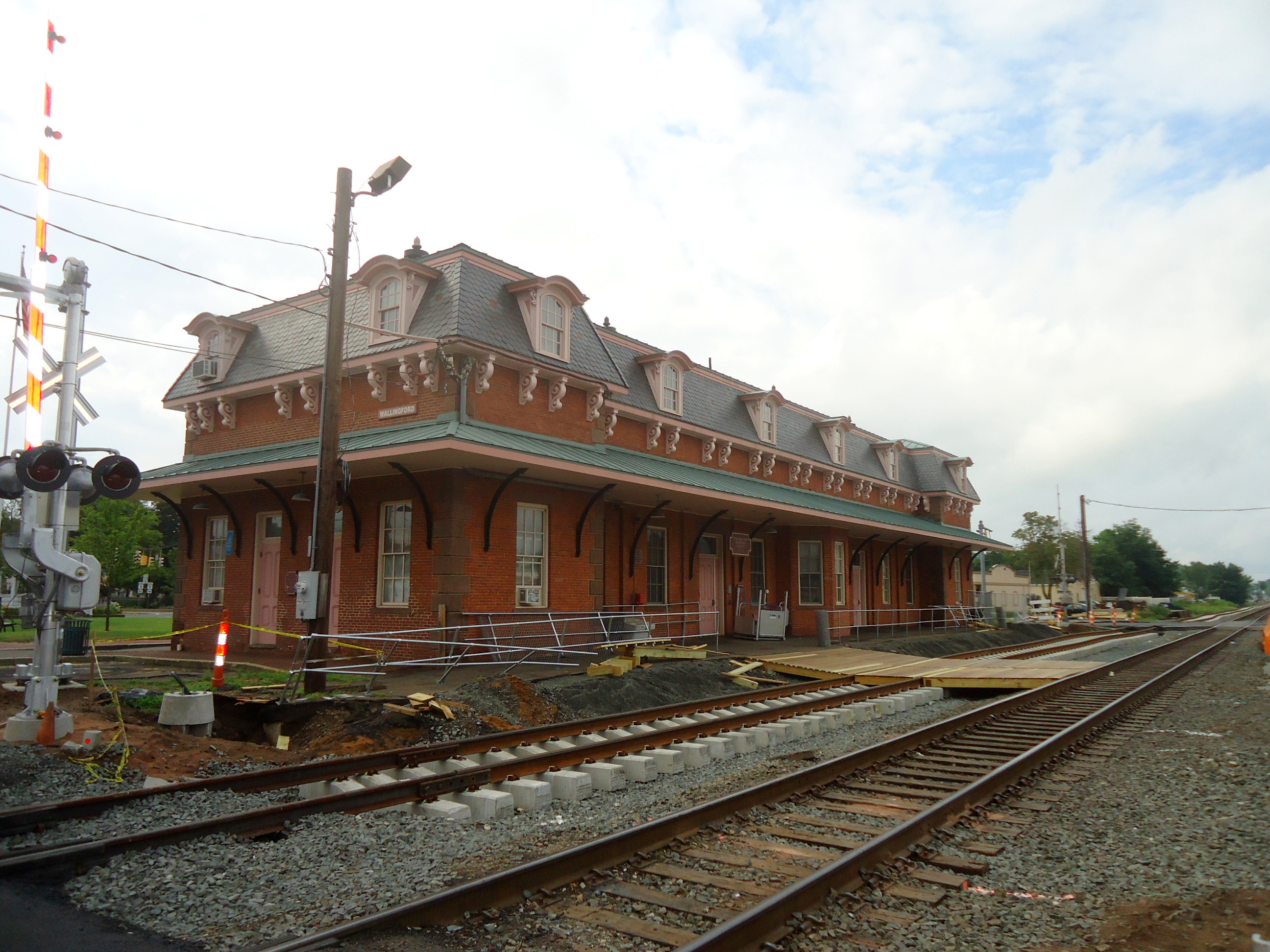 Wallingford station with temporary platform (opened May 1, 2016) in July 2016